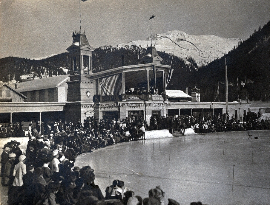 the old "Eisbahn" of Davos